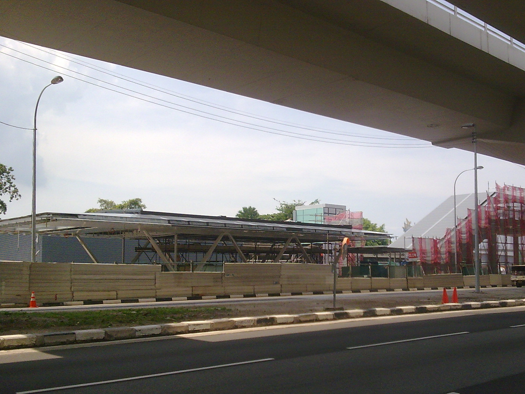 station exit of Pasir Panjang MRT station under construction